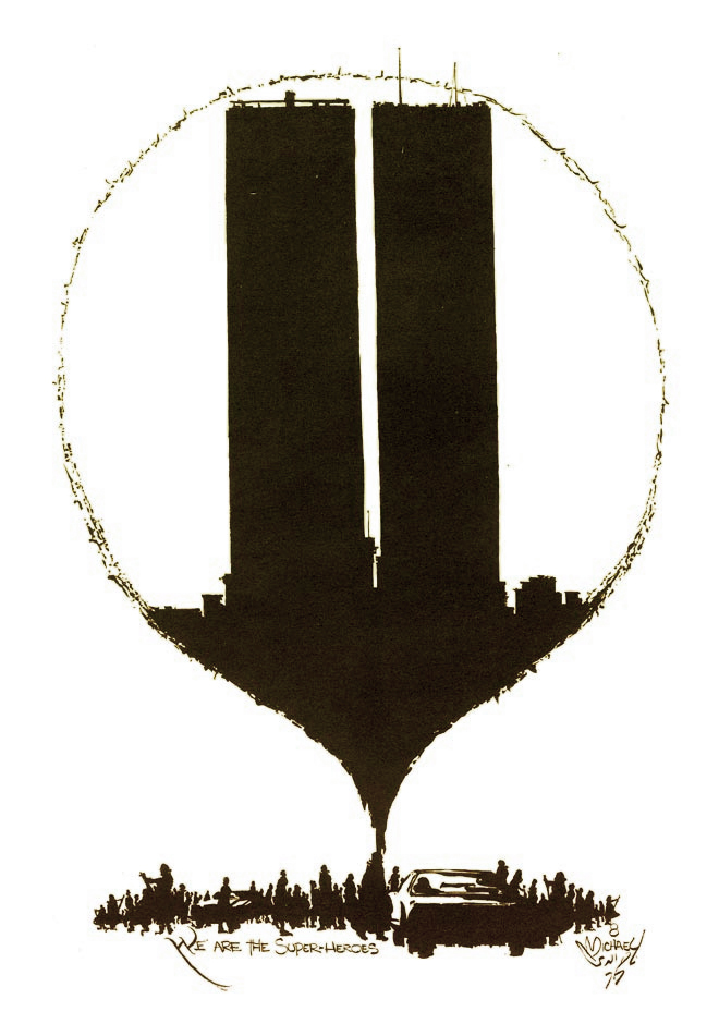 Page 8 from Hot Stuff #6 (1978) by comics artist Michael Netzer depicting the non-mainstream direction of his work in that period.